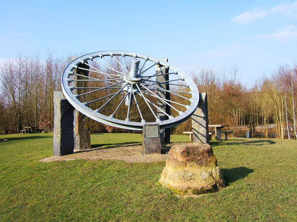 Memorial for Highley Colliery at Severn Valley Country Park This is a winding wheel from the former Highley Colliery which closed in 1969. The site now forms part of the Severn Valley Country Park. The wheel has been placed here to celebrate the people who worked in the local mines. It is near to the car park and surrounded by picnic tables and paved paths which lead down to Highley Station on the Severn Valley Railway.